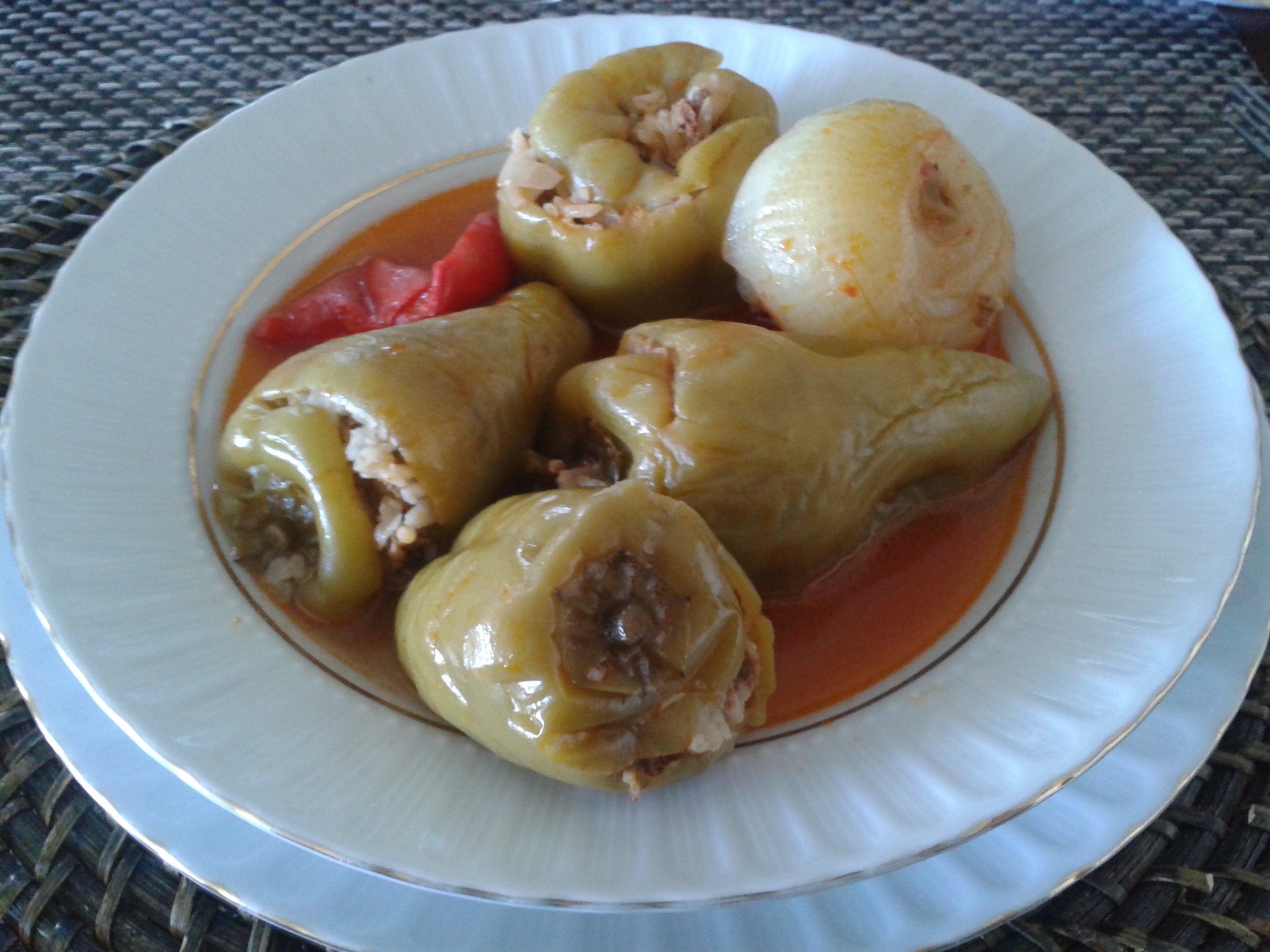 "Etli biber dolması" (minced meat -and a little bit of rice- stuffed peppers) in Ankara.